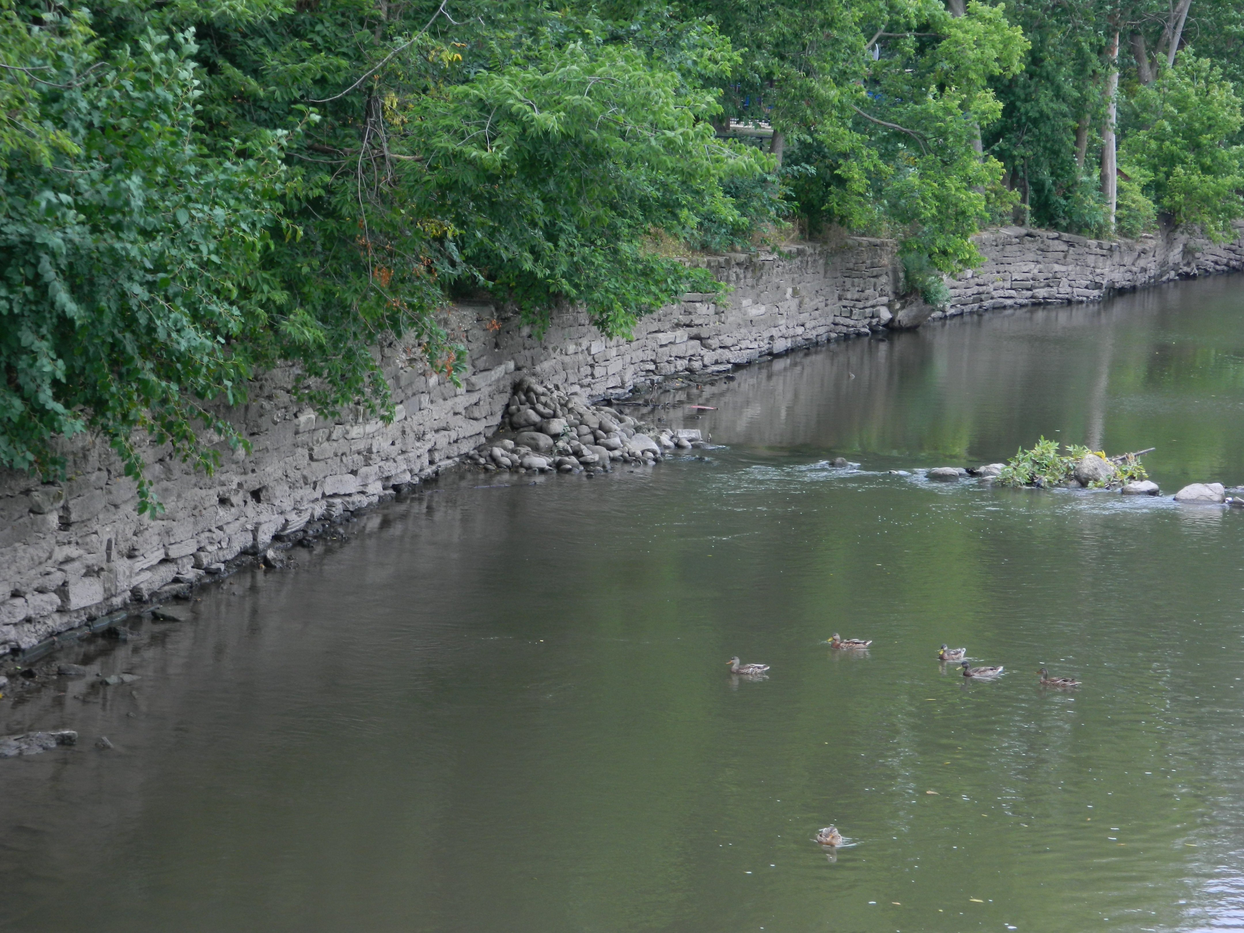 The North Branch Chicago River passing through Eugene Field Park, Chicago. The retaining wall on the left was a Works Progress Administration project in the 1940s.